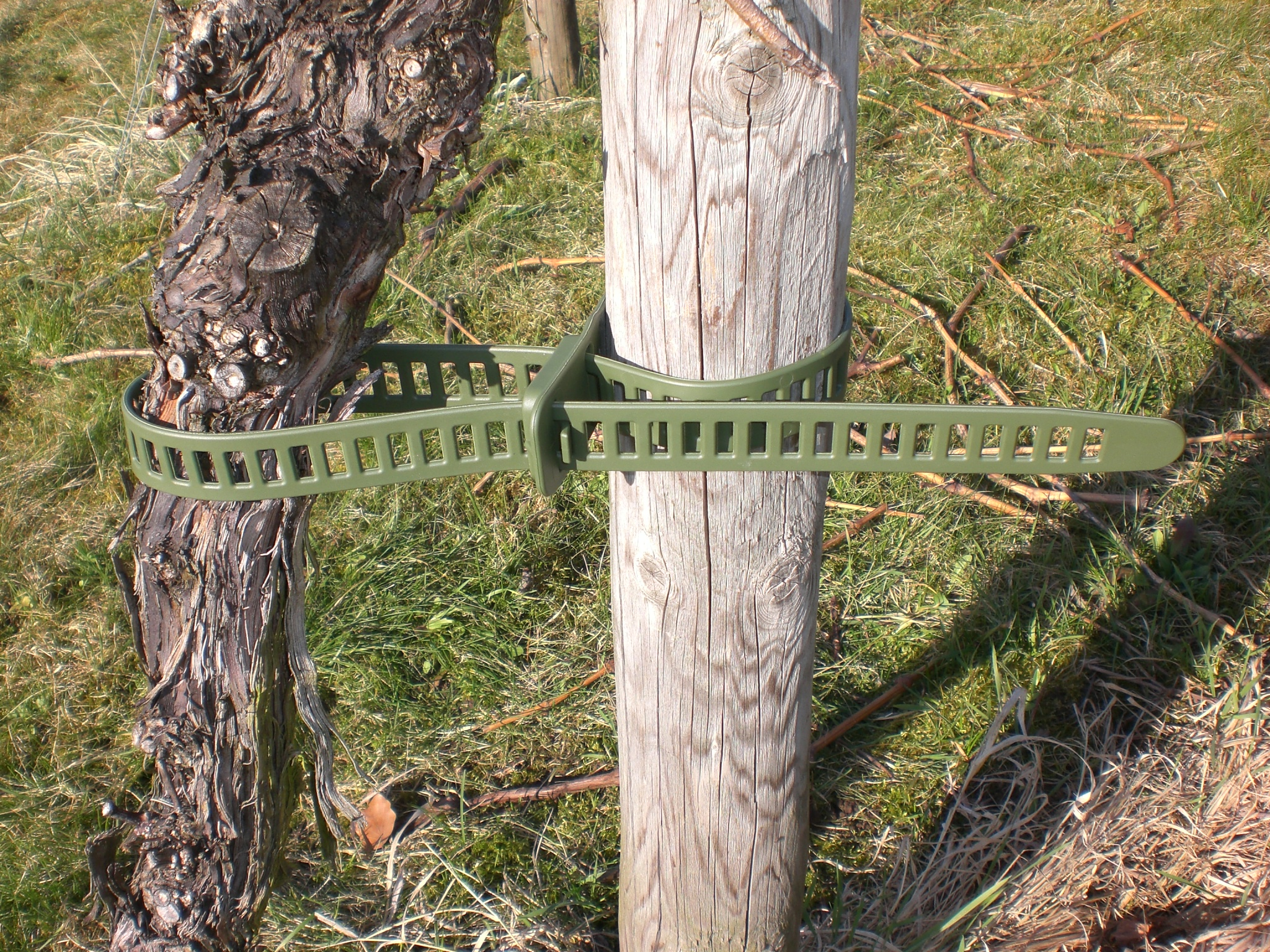 cable ties, rovaflex soft ties